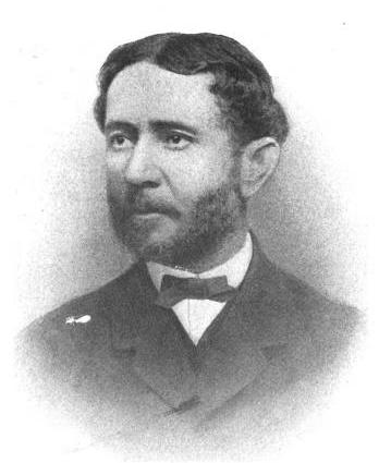 Undated image of American writer, poet, and playwright George Henry Miles. From Gems from George H. Miles. Chicago: J. S. Hyland and Company, 1901.